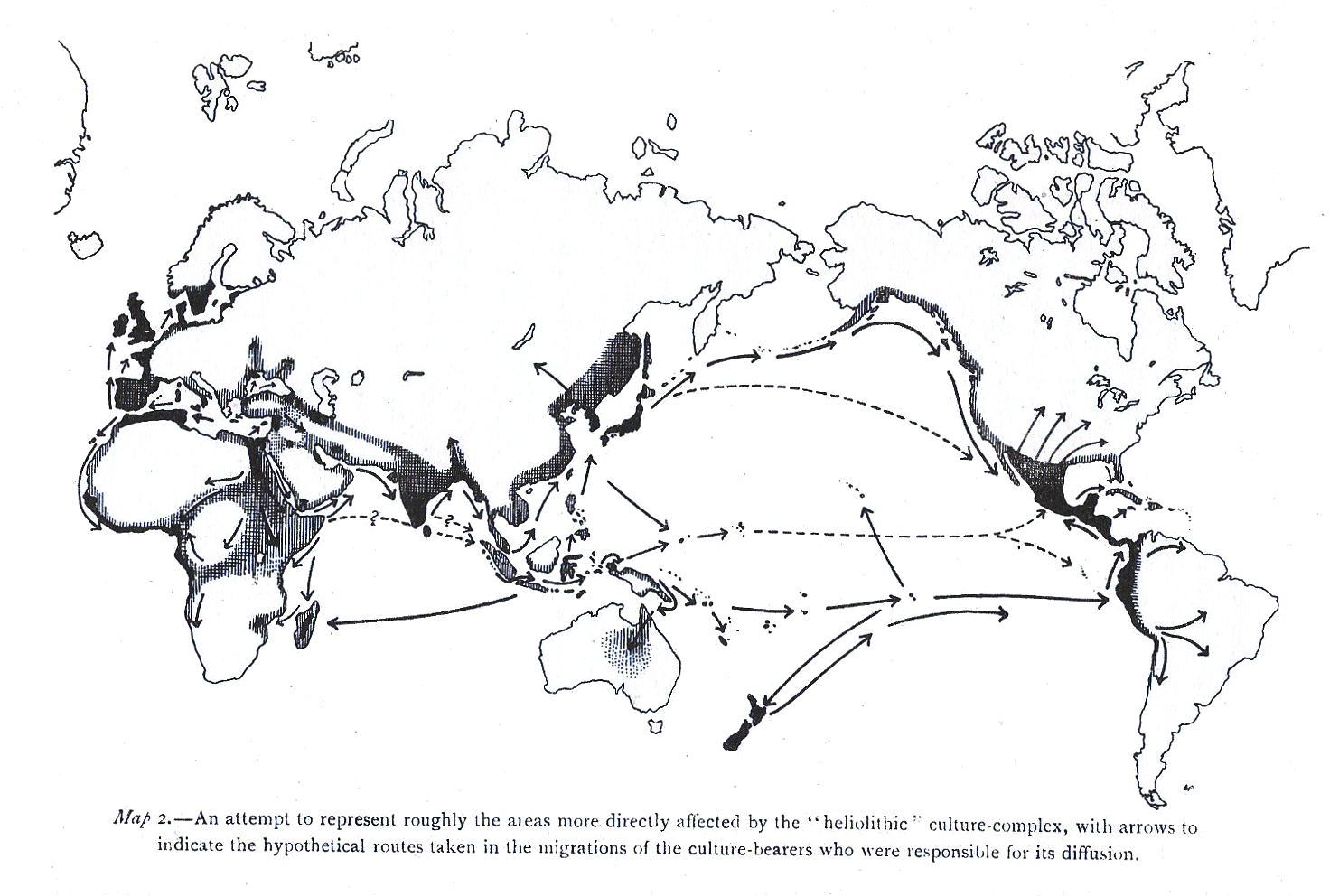 To give reference to G. Elliot Smith theory of hyperdiffusionism from Egypt